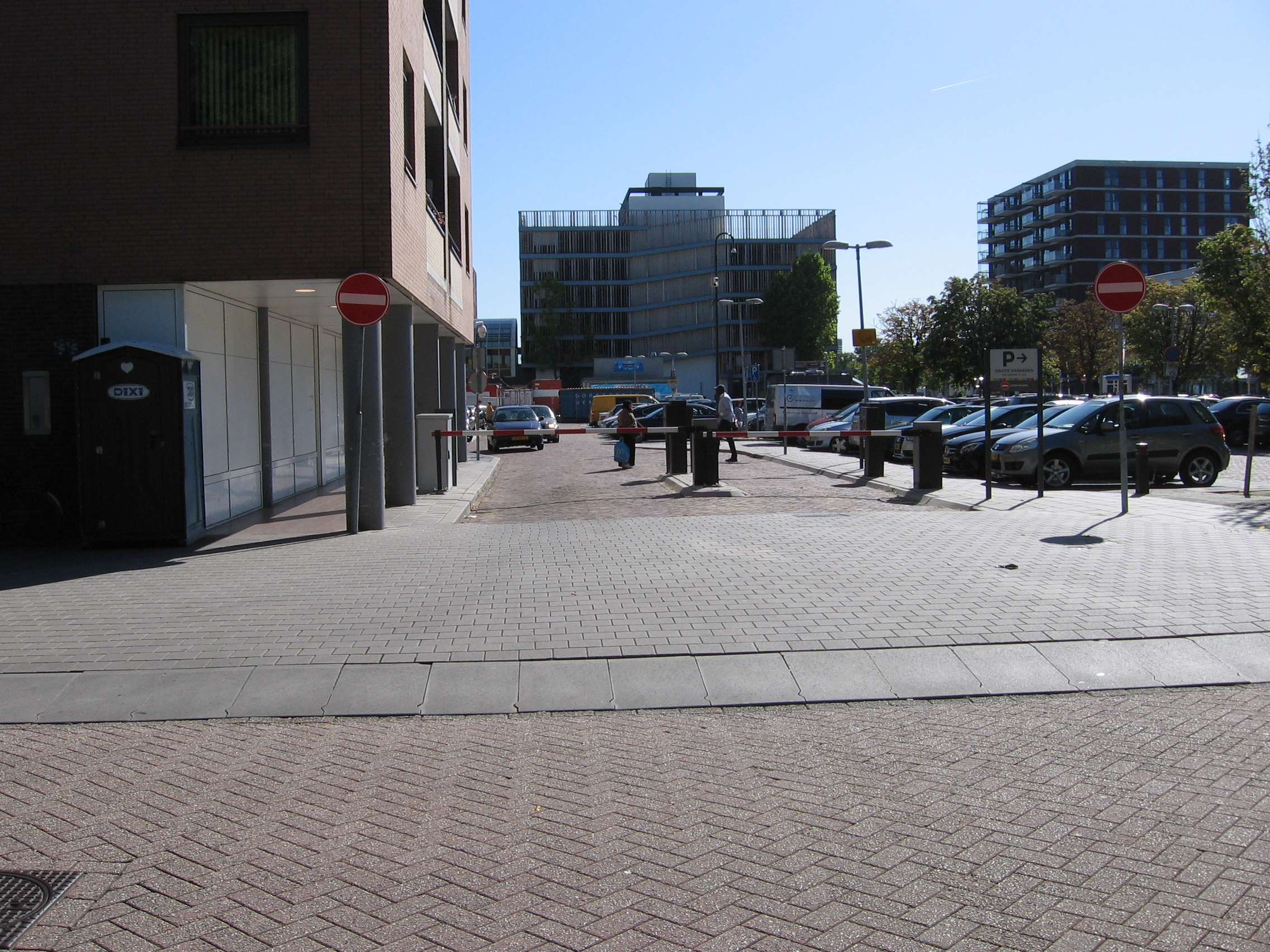 Exit of the parking lot of the shopping mall Winkelcentrum Nova, Kanaleneiland Utrecht-West. Cyclist custumers are barred from entering or leaving the shopping area.